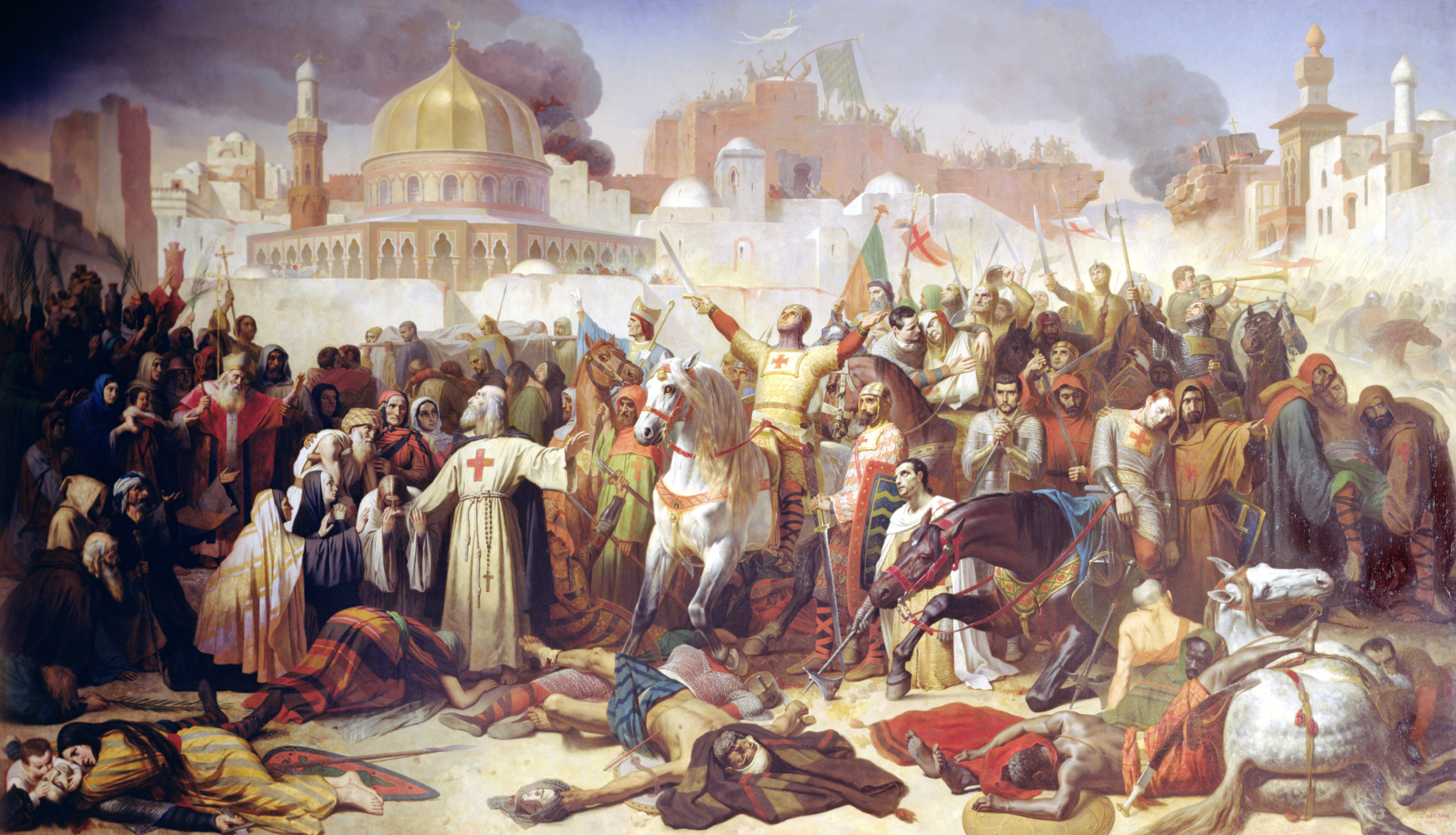 "Taking of Jerusalem by the Crusaders, 15th July 1099" / Giraudon / The Bridgeman Art Library